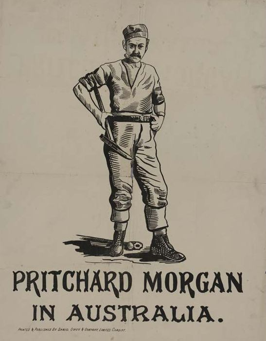 William Morgan Pritchard, M.P. in Australia. Satire